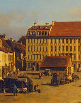 Dresden